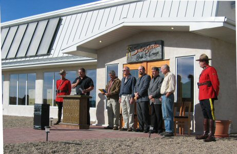 Photo of the Craik Eco-Centre entrance during the Grand Opening ceremonies. Photo by Paul Stinson Craik Sustainable Living Project